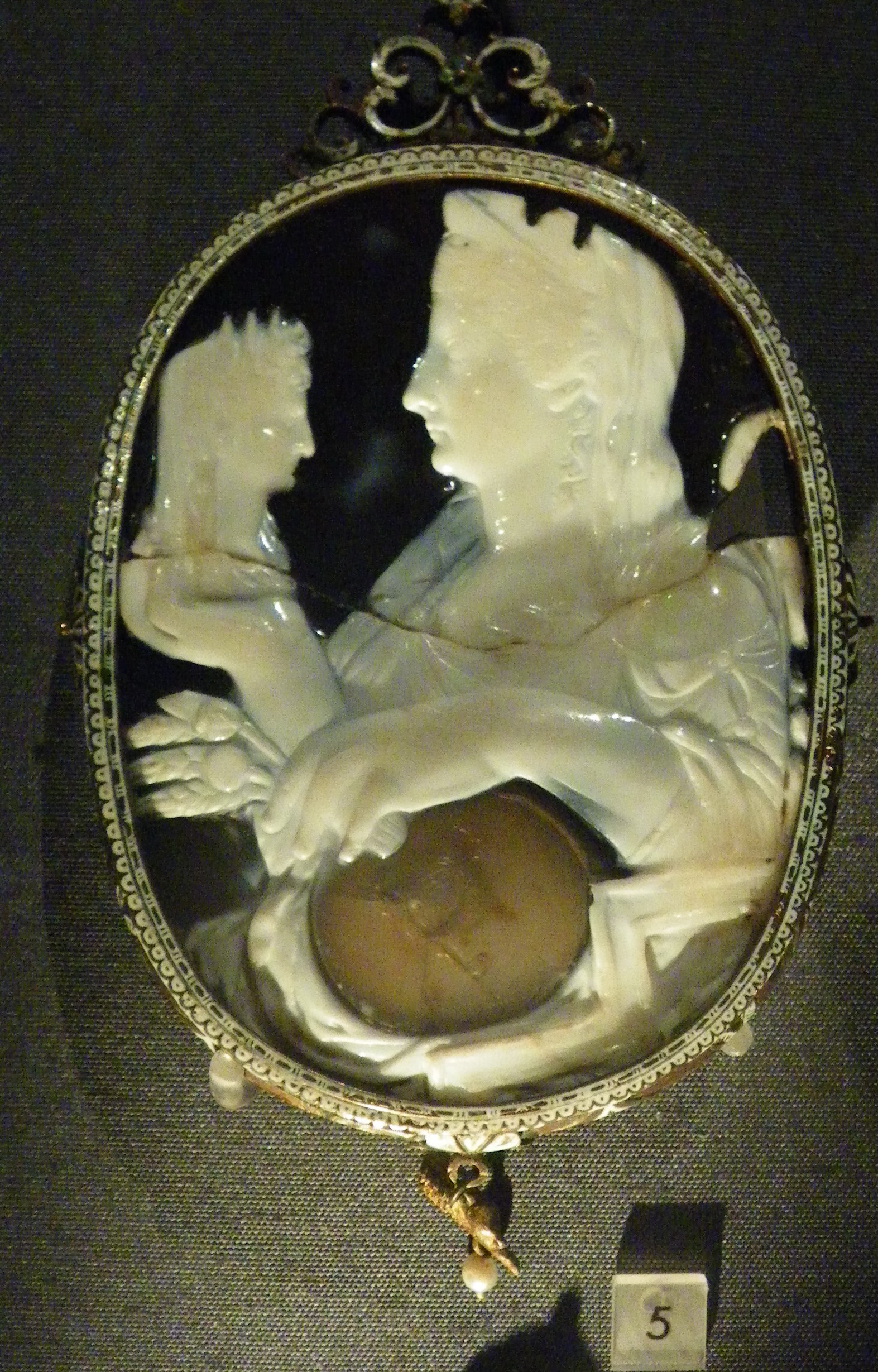 Treasure in the Collection of Greek and Roman Antiquities (Kunsthistorisches Museum, Wien)